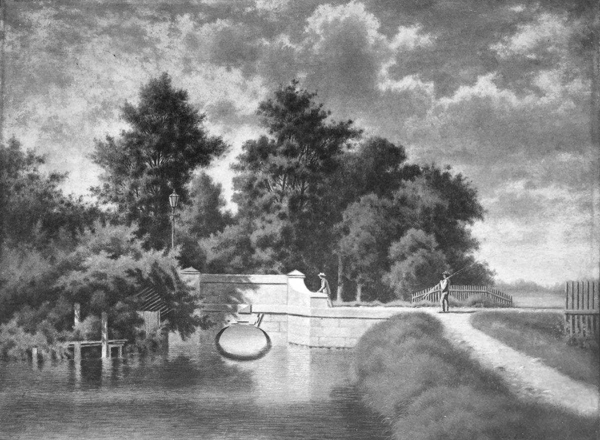 The bridge across Ladegårdsåen linking Falkoner Allé with Jagtvej in Copenhagen, Denmark